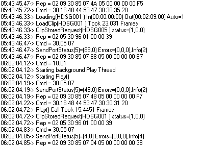 Extract from the session log of a VDCP communication between a server and a controller. The controller has issued a play command and the server has just finished playing the clip.